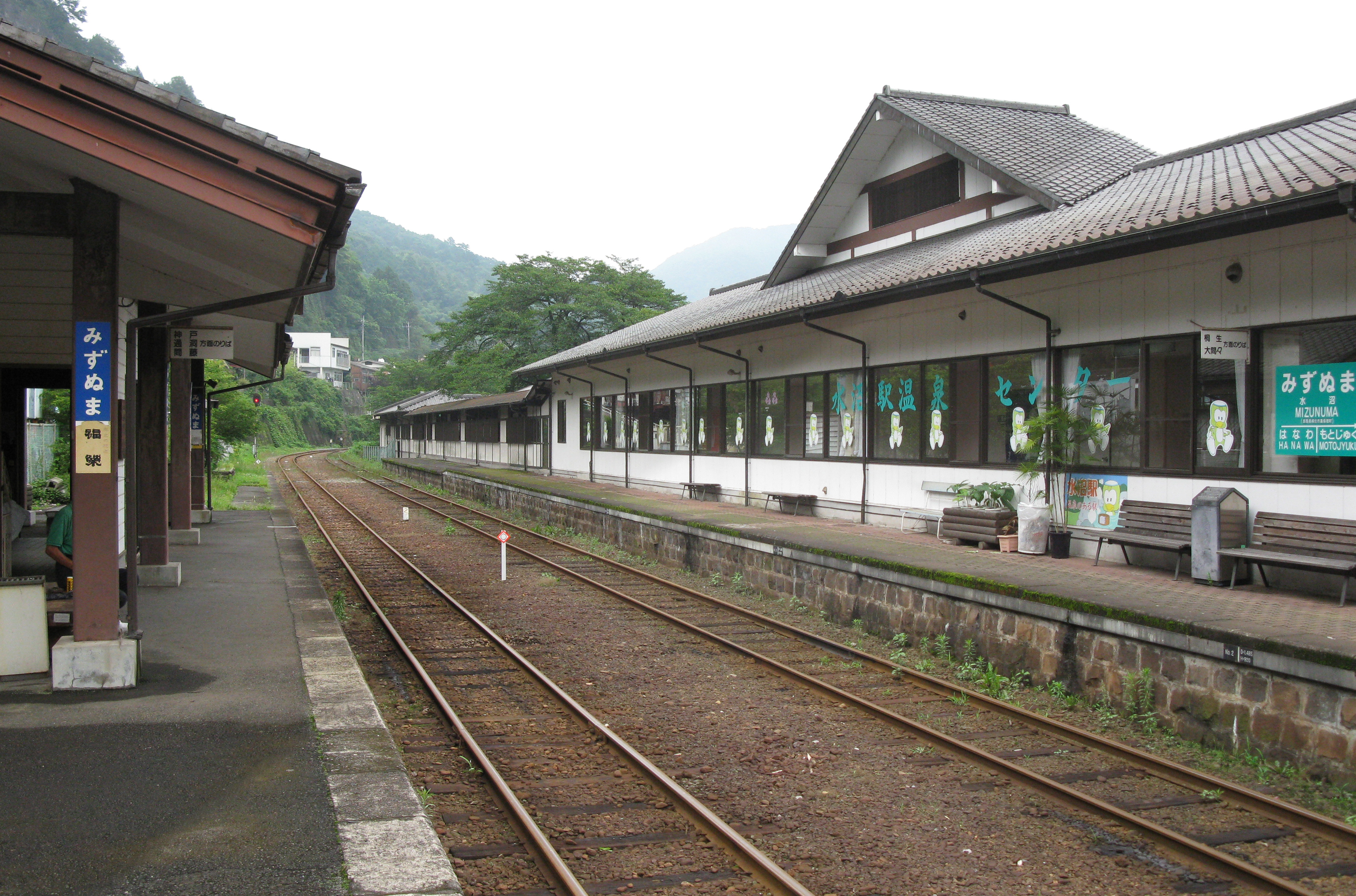 Mizunuma Station platform (Watarase Keikoku Railway Watarase Keikoku Line)